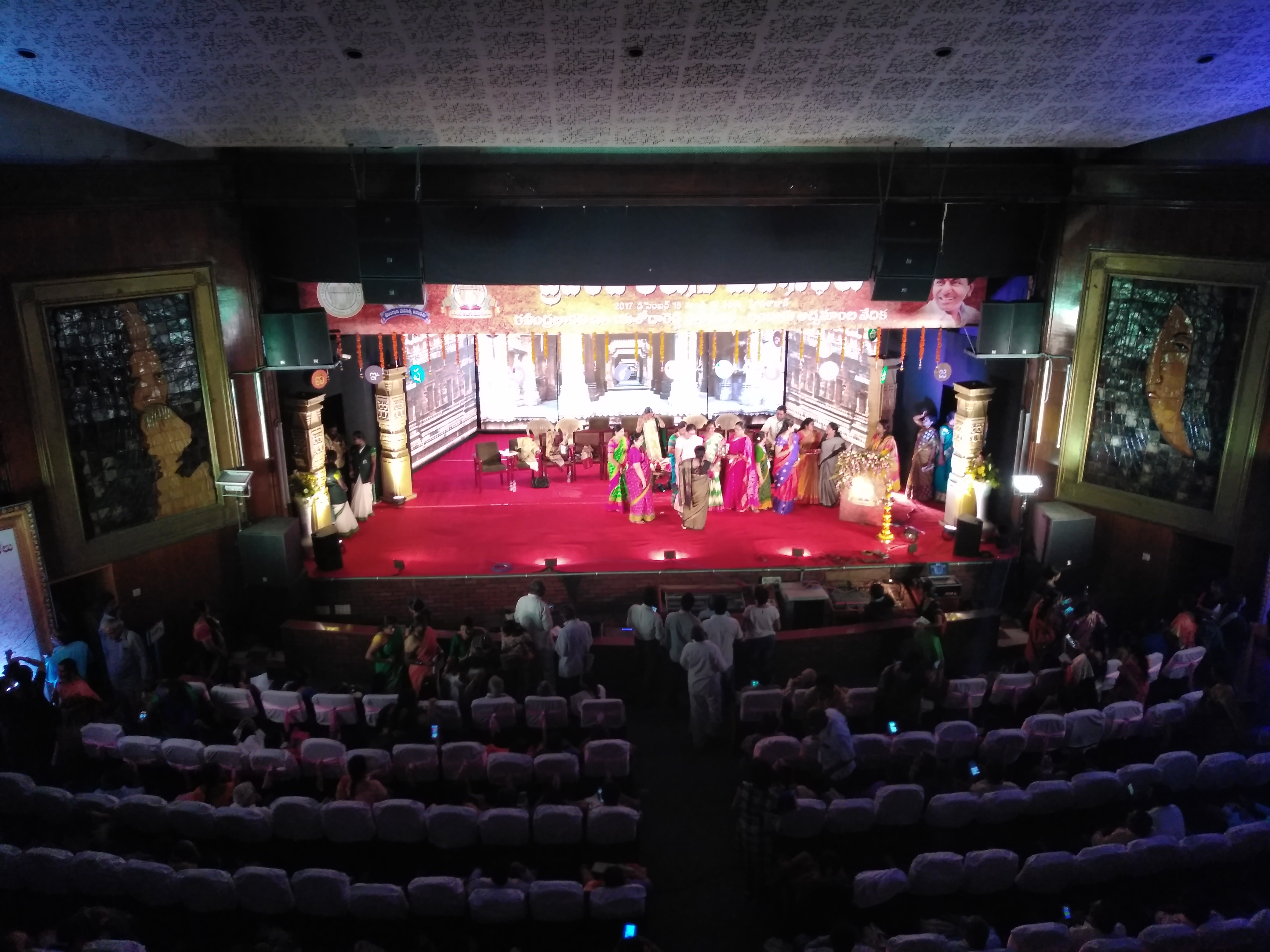 తెలుగు ప్రపంచ మహాసభల వద్ద దృశ్యాలు,వ్యక్తులు,సమావేశాలు